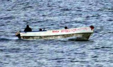 somali pirates at large